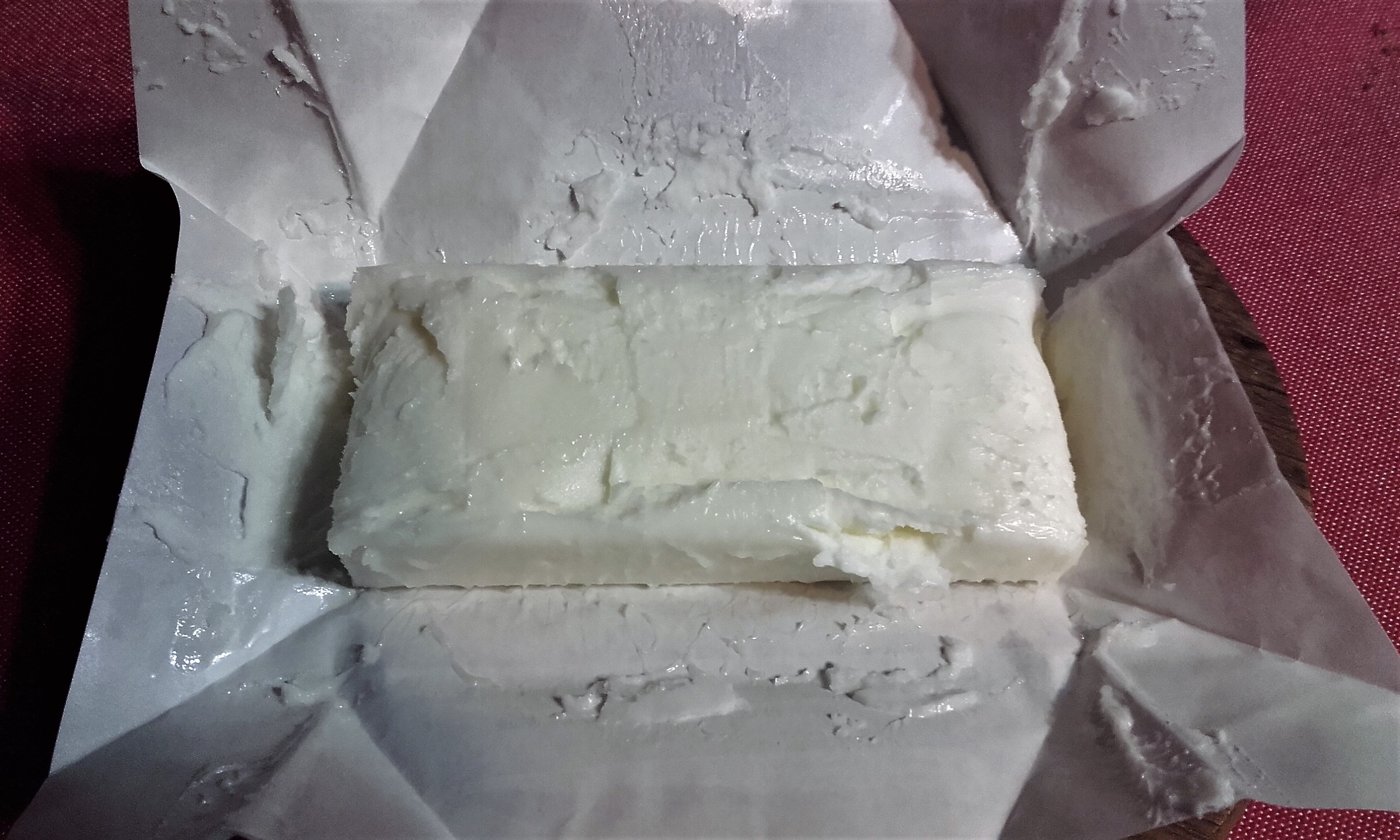 Goat butter